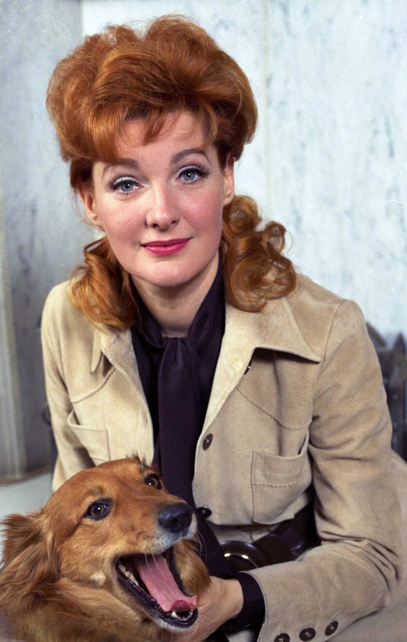 portrait of Barbara Murray at home